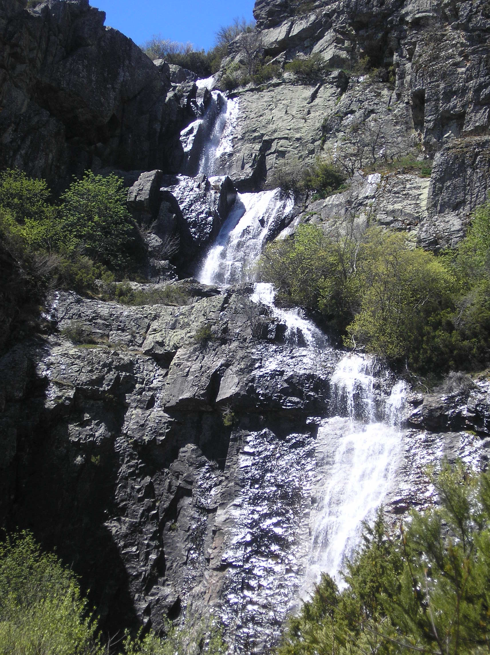 Despeñalagua waterfalls, under Ocejón peak, next to Valverde de los Arroyos (Guadalajara, Spain).